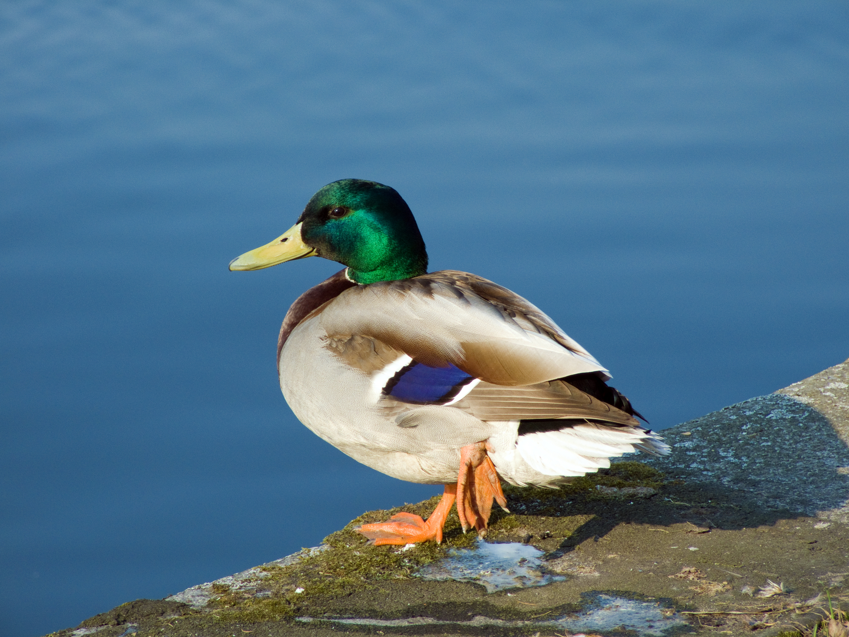 Male mallard.